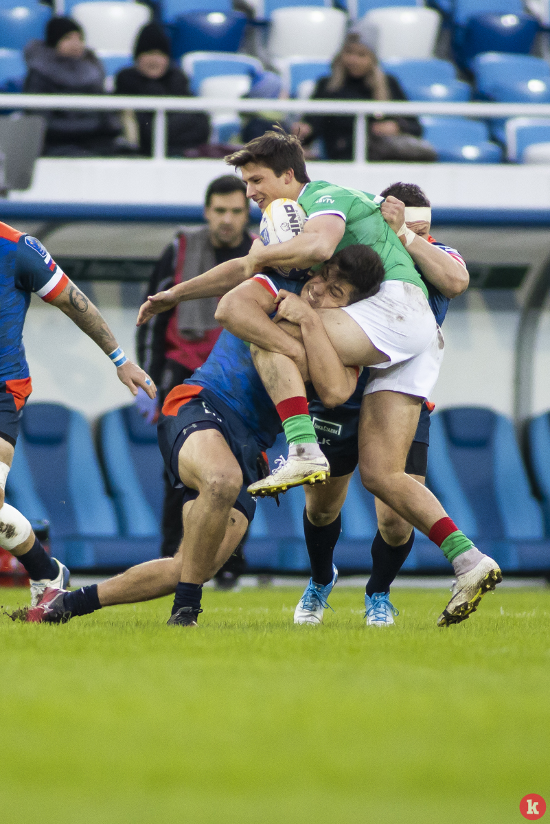 2019-2020 REIC Men XV: Russia vs. Portugal (2020-02-22)